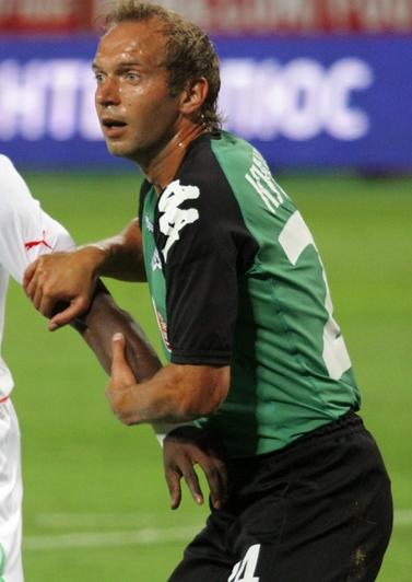 Alyaksandr Kulchiy playing for FC Krasnodar.